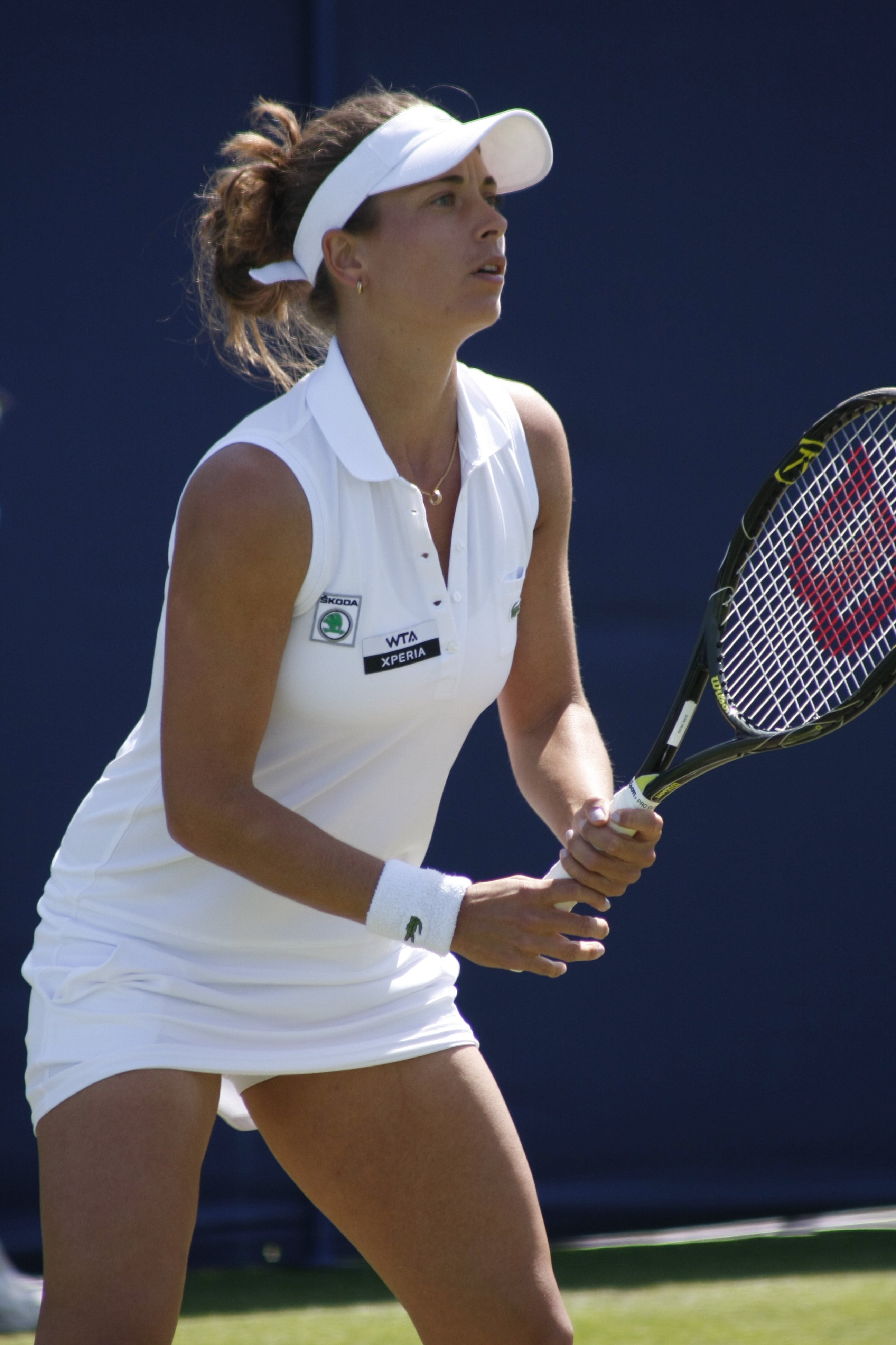 Petra Cetkovská at the 2012 Aegon International